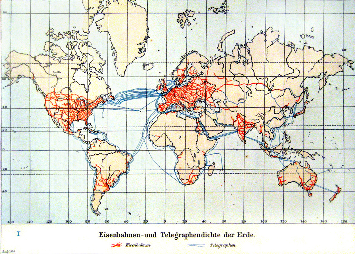 World Map of the Railway and Telegraph Network Density at 1900. Copy from Andrees Handatlas 1901, S. 17 Kolonial- und Weltverkehrskarte